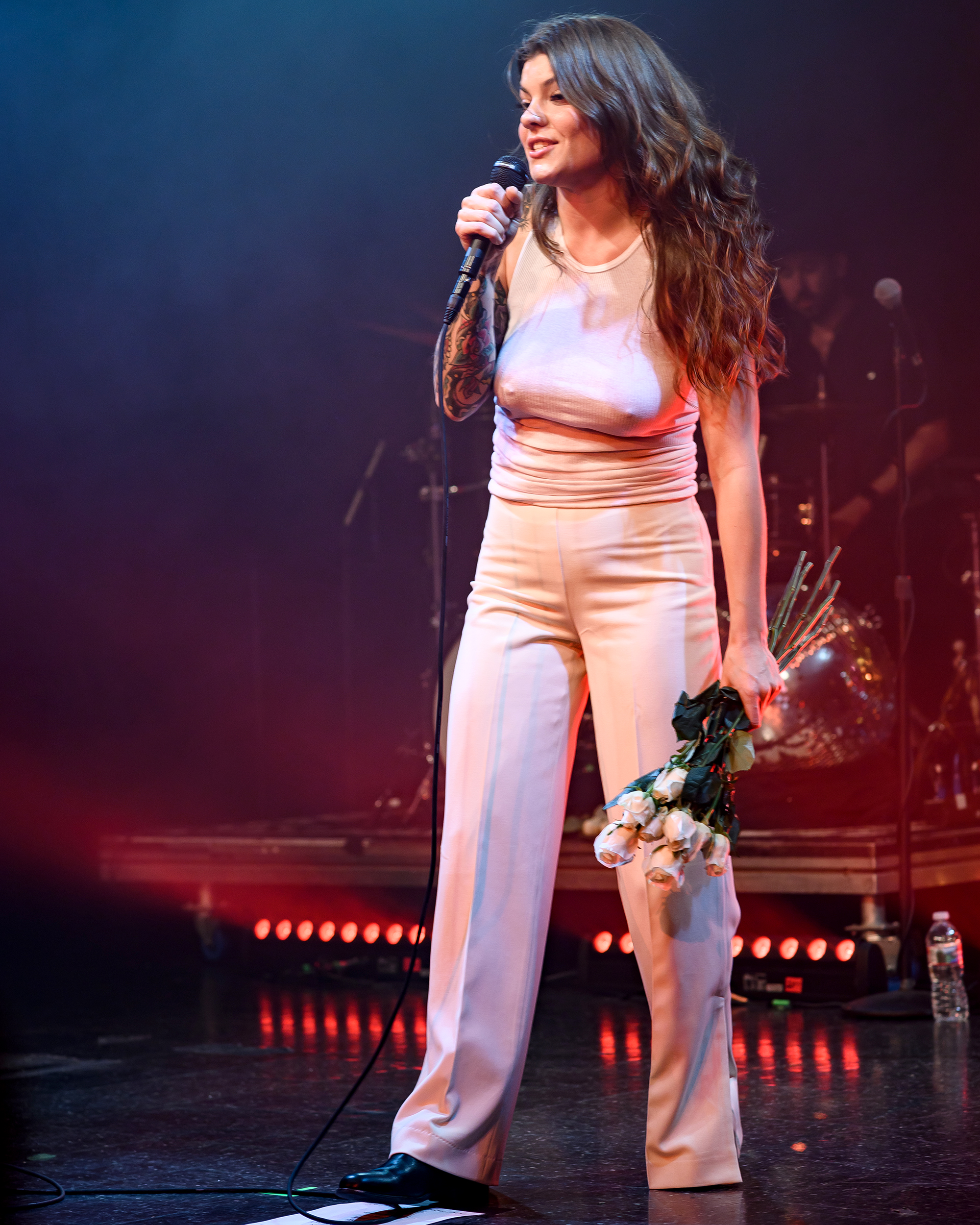 Donna Missal performing live at the El Rey theatre in Los Angeles, California, on Friday, March 29, 2019.